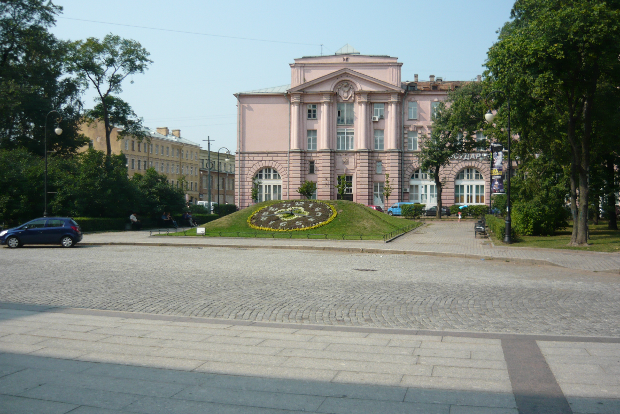 Saint Petersburg (Russia), Alexander Park.